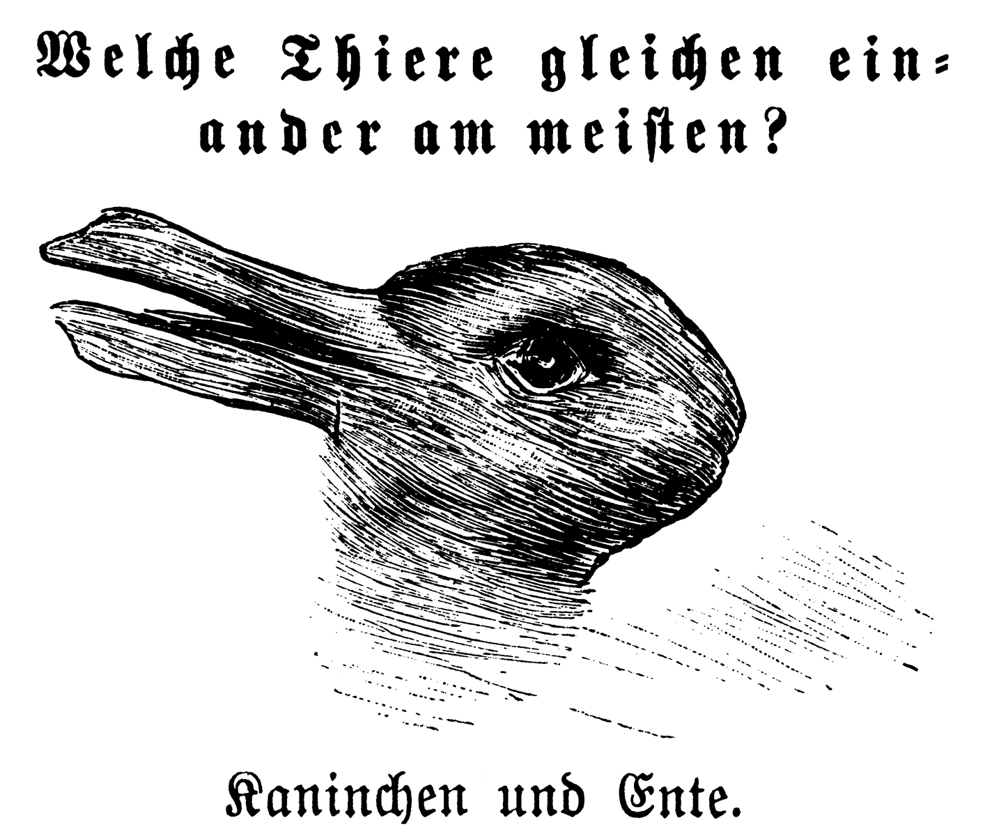 "Kaninchen und Ente" ("Rabbit and Duck"), the earliest known version of the duck–rabbit illusion, from the 23 October 1892 issue of Fliegende Blätter ( It is captioned, "Welche Thiere gleichen einander am meisten?" ("Which animals are most like each other?")